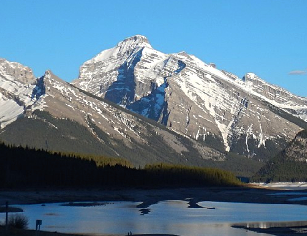 Mount Sparrowhawk seen from Spray Lakes area of Kananaskis Country, Alberta, Canada